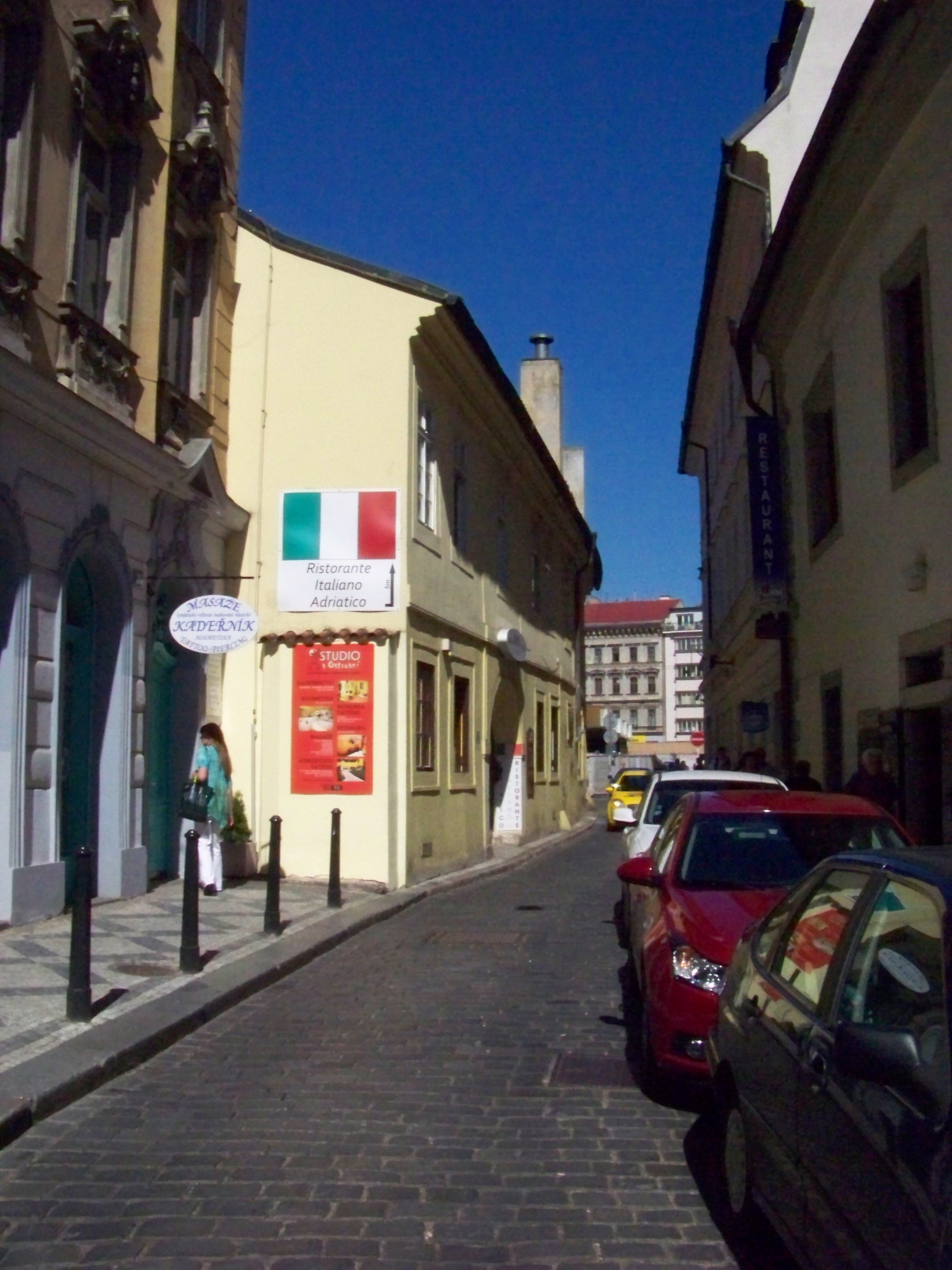 Prague-New Town, the Czech Republic. Ostrovní street.